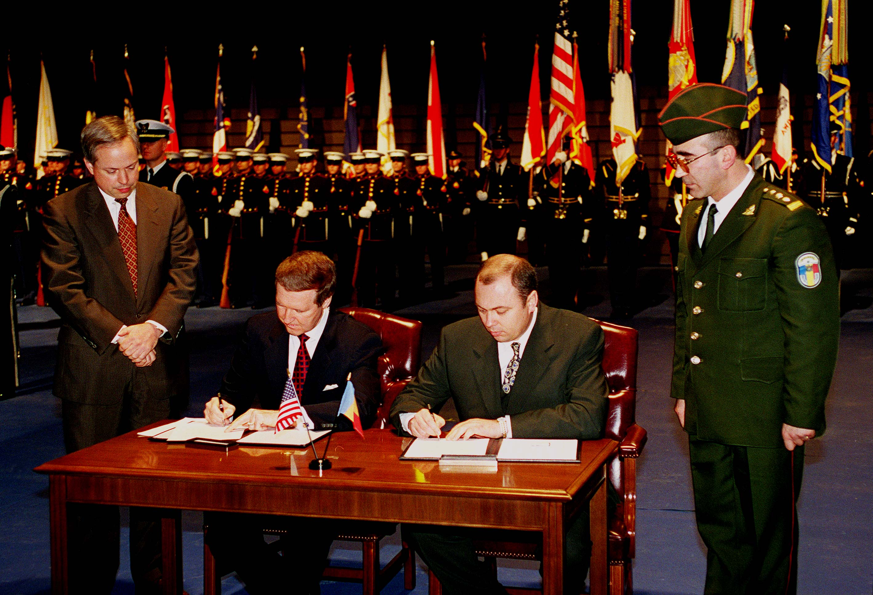 Secretary of Defense William Cohen (seated left) and Minister of Defense Valeriu Pasat (seated right), of the Republic of Moldova, sign an agreement on military cooperation for the coming year at Conmy Hall, Fort Myer, Va., on Jan. 29, 1998. Cohen hosted an armed forces full honor arrival ceremony to welcome Pasat to the nation's capital. The two defense leaders will later meet at the Pentagon to discuss a range of security issues of mutual interest to both nations.